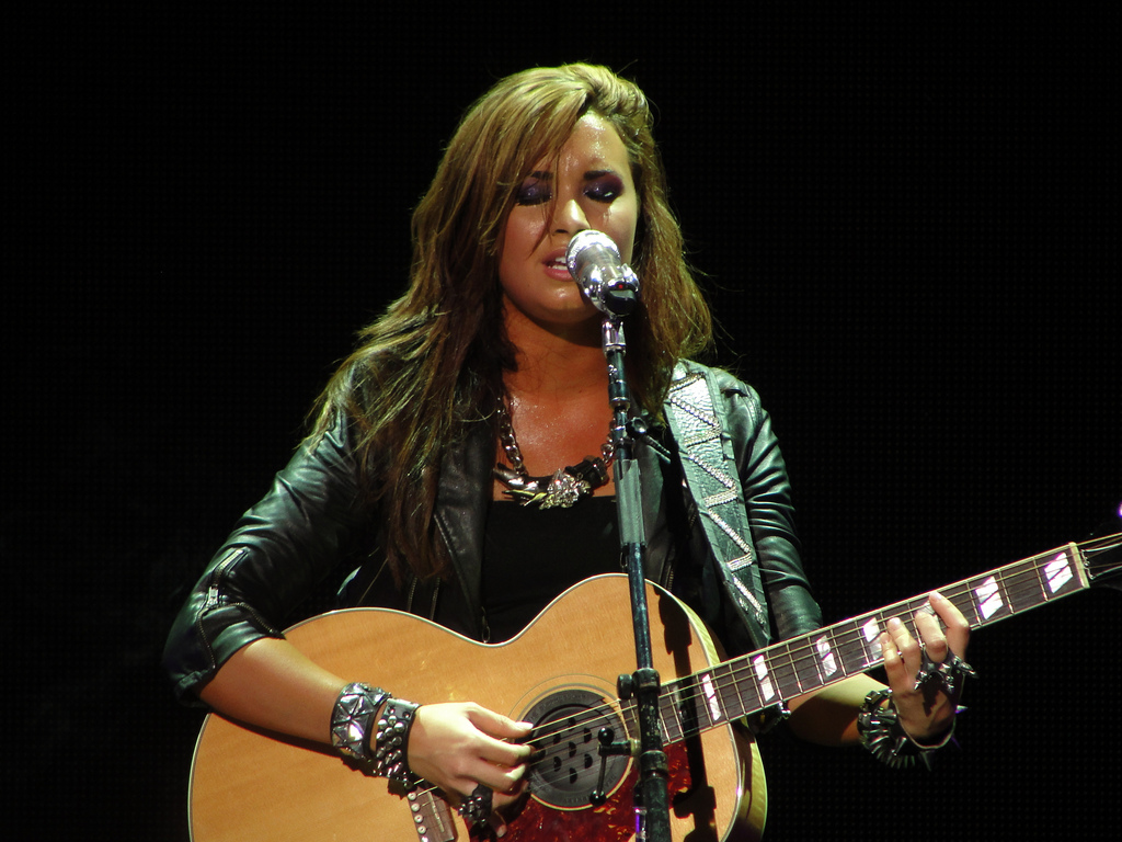 Jonas Brothers Live In Concert and The Cast of Camp Rock 2, September 2nd, 2010.